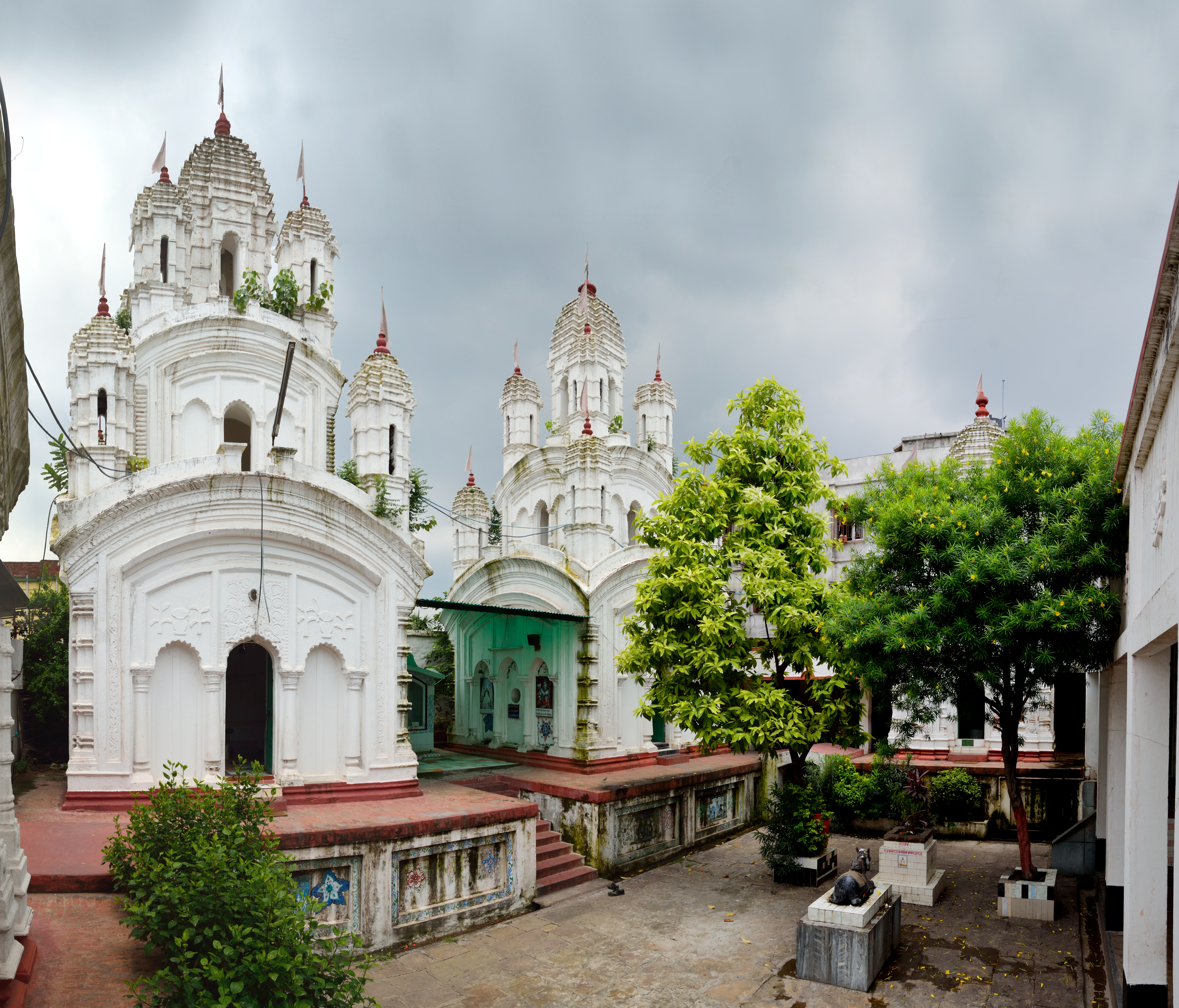 The Char Mandir or four temples of Shiva were founded by the then Raja of Andul, Kshetra Mitra on 1854 near the river Hooghly in Shibpur, Howrah.